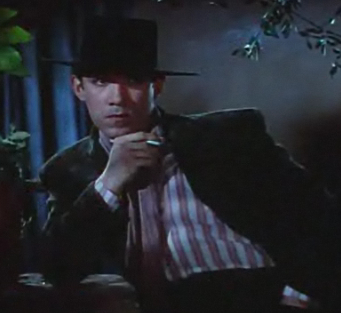 Cropped screenshot of Anthony Quinn from the trailer for the film Blood and Sand.